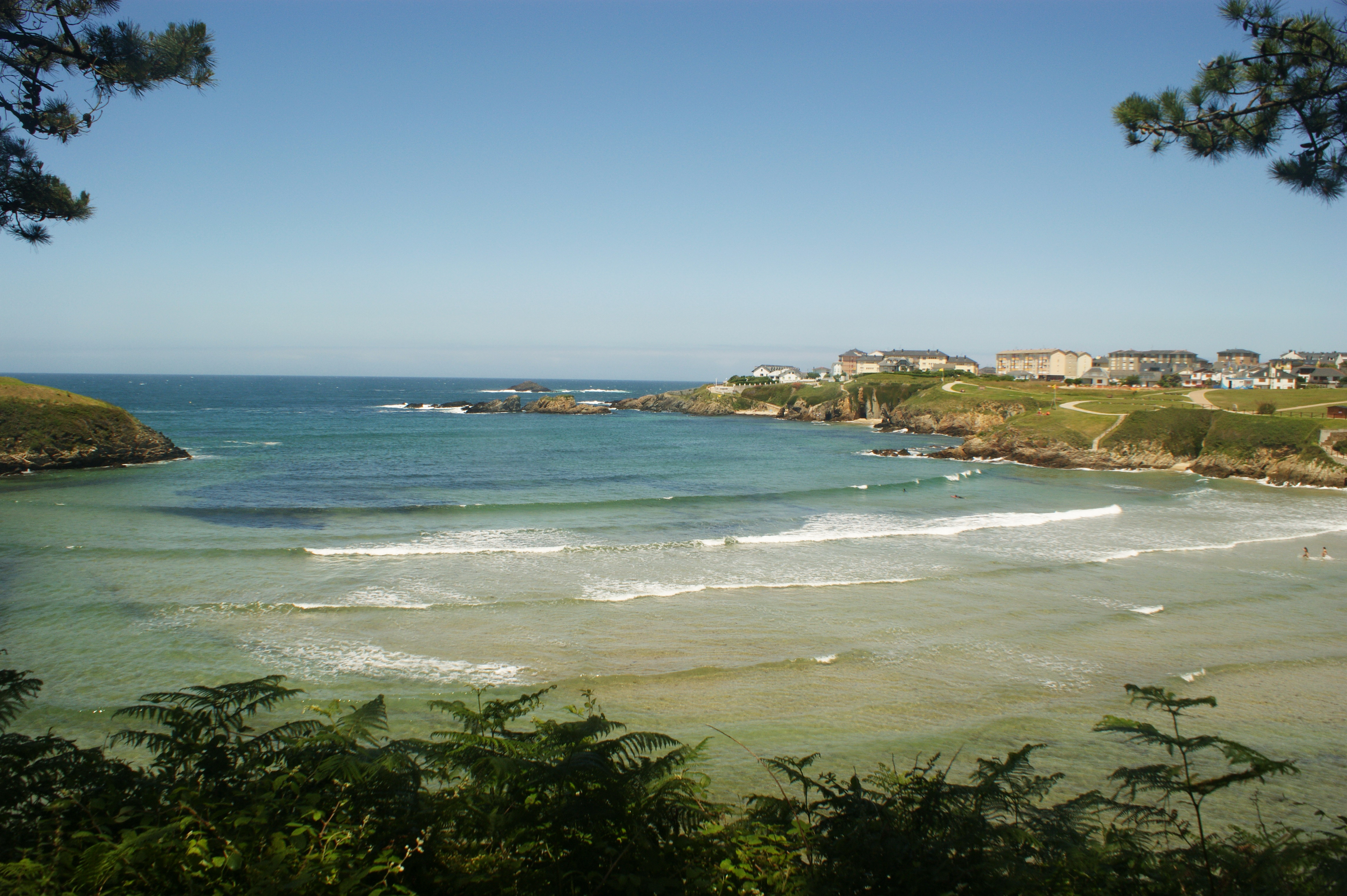 playa de Tapia de Casariego